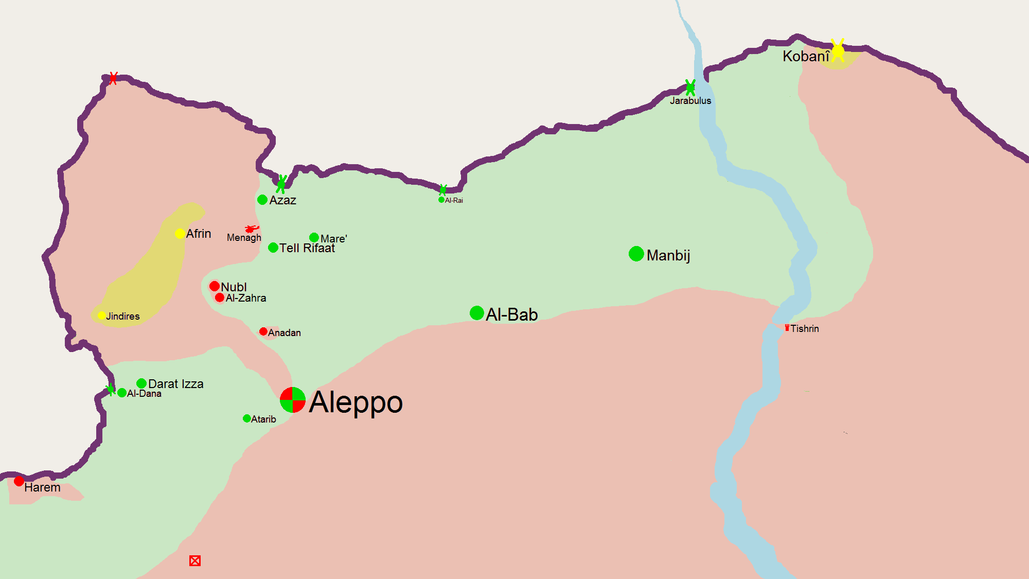 Map of the Syrian Civil War in the northern Aleppo Governorate on 20 July 2012.